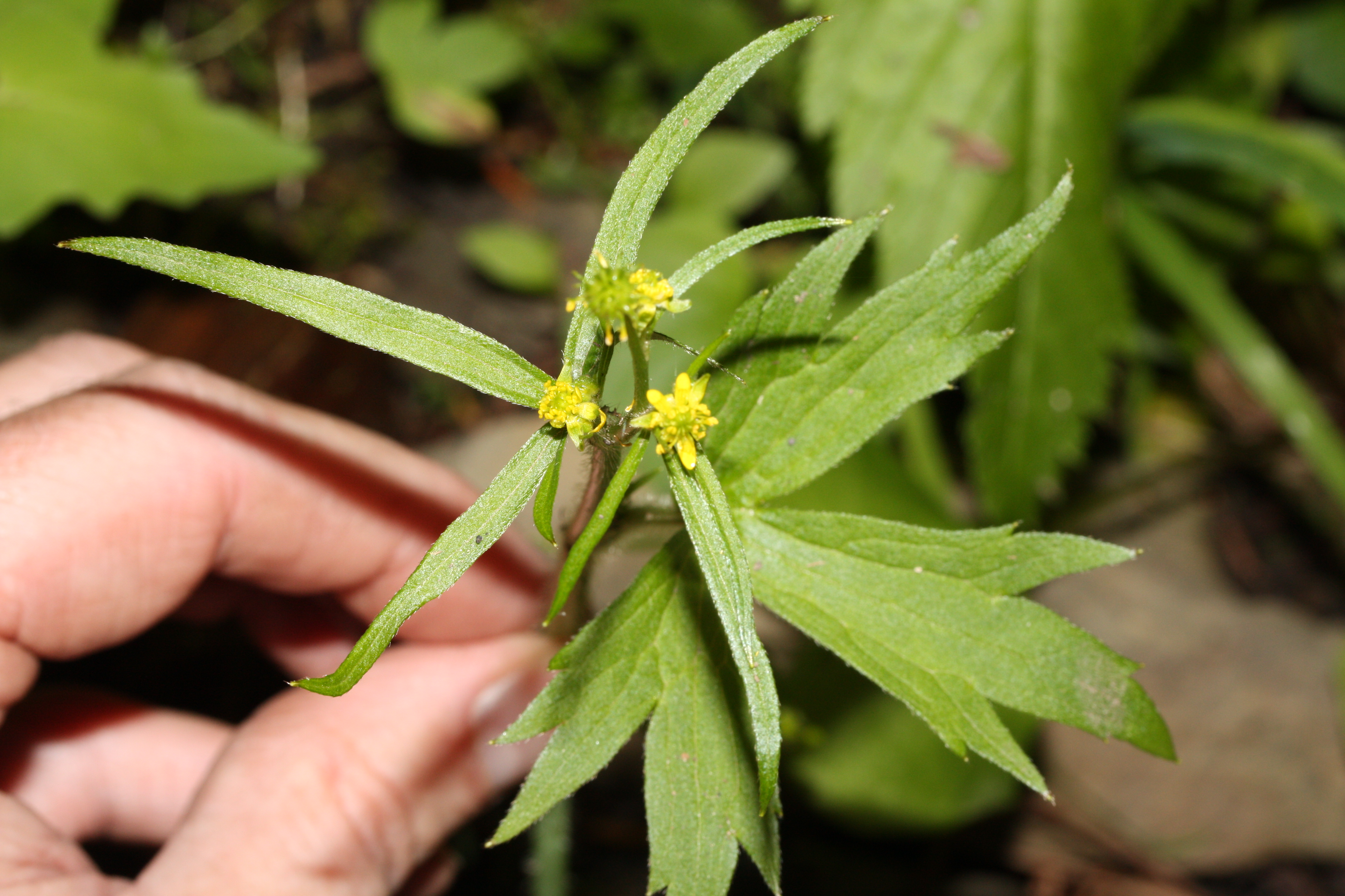 Woodland Buttercup, Little Buttercup